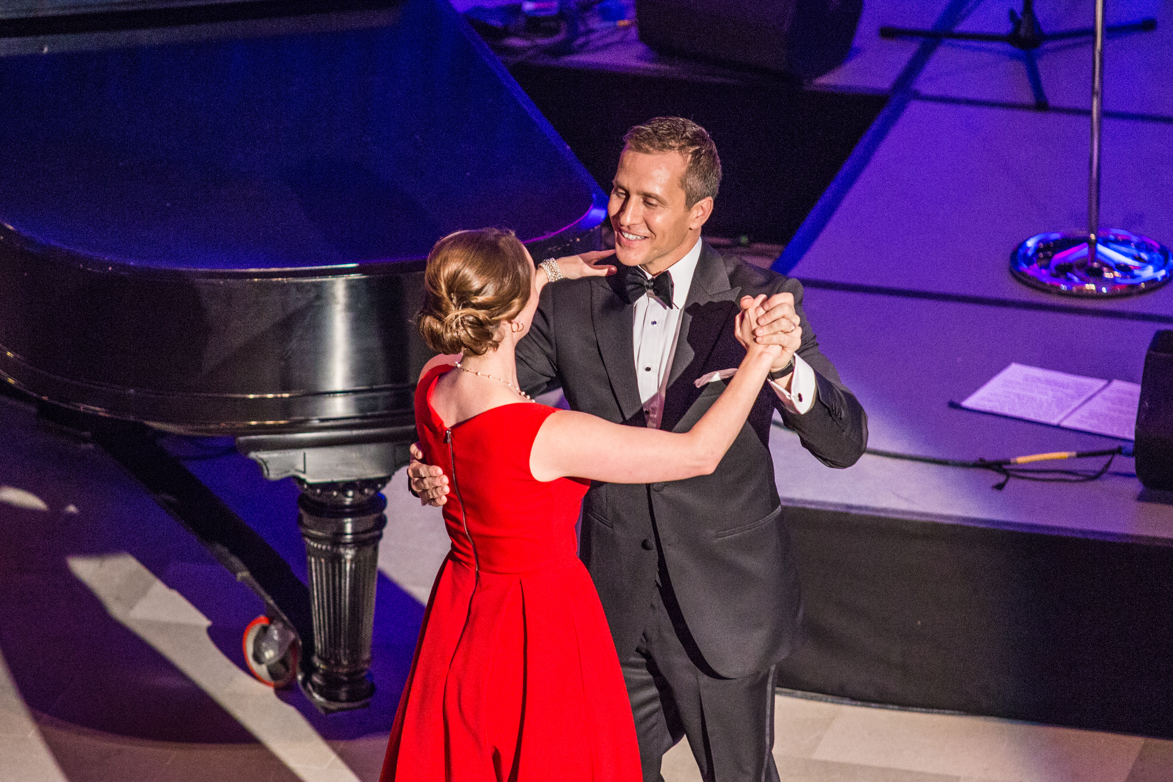 The newly sworn-in Missouri governor Eric Greitens and his wife Sheena Greitens dance to the Missouri Waltz during the inaugural ball in Jefferson City, Mo., Jan. 9, 2017. Missouri Gov. Eric Greitens was sworn-in as the 56th governor of Missouri earlier in the day at the State Capitol in Jefferson City. (Missouri National Guard photo by Staff Sgt. Patrick P. Evenson)